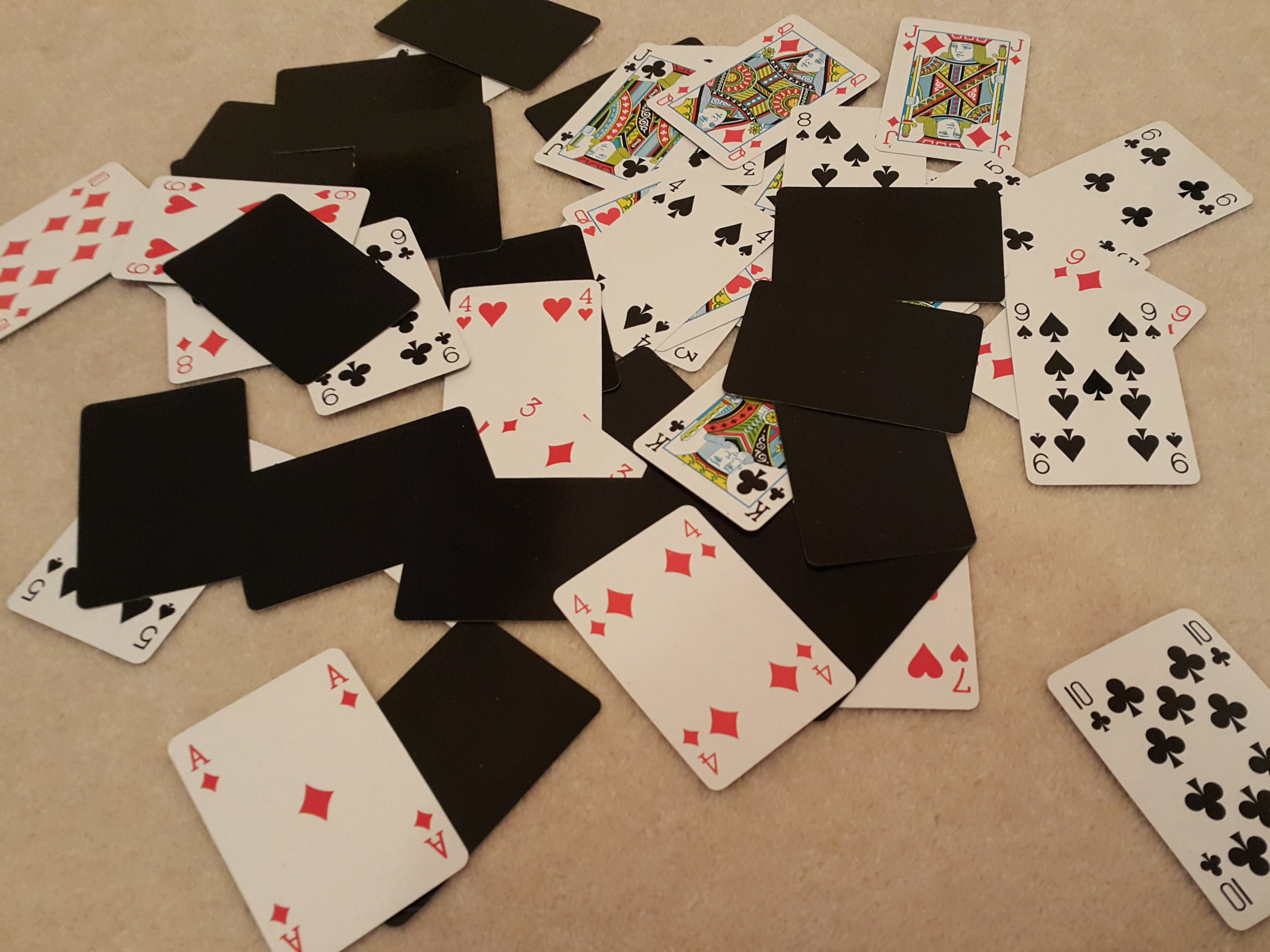 A pack of playing cards spread on the floor, as for 52 Card Pickup.